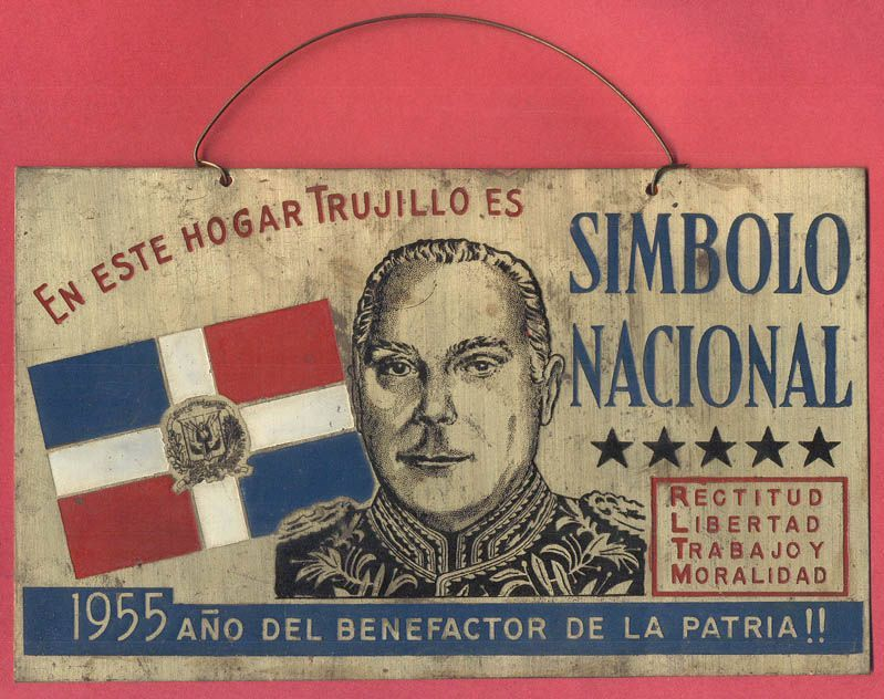 Propaganda sign celebrating the 25th anniversary of the Era de Trujillo in 1955, to be hanged on the walls of private homes (translation: In this household, Trujillo is a national symbol). The crude metal and exposed hanging wire indicates that this was primarily meant to be hung in the thousands of bare or dirt floor bohíos where countless Dominican villagers and peasants lived.